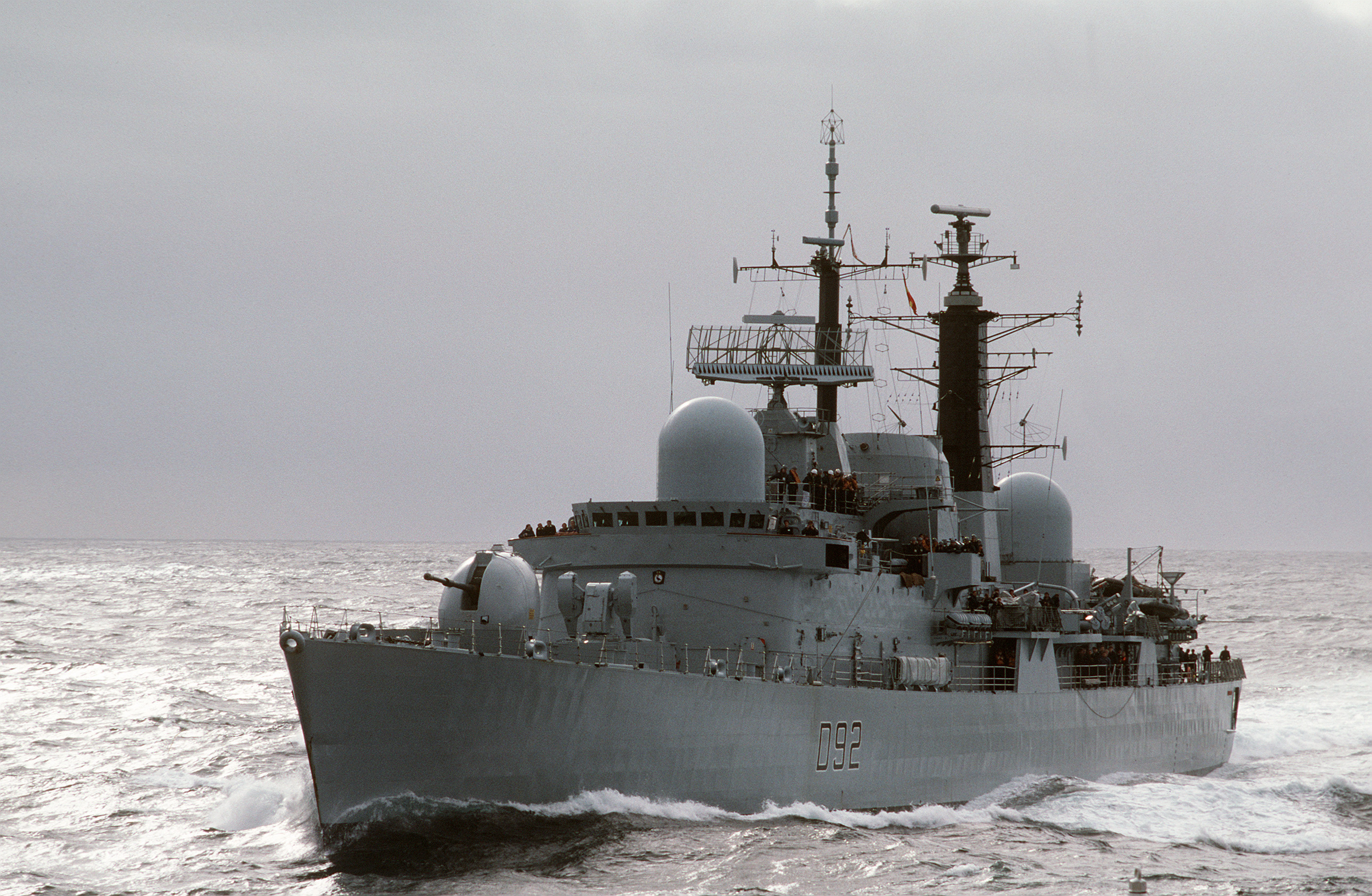 The Royal Navy destroyer HMS Liverpool (D92) during the exercise Northern Wedding 86.